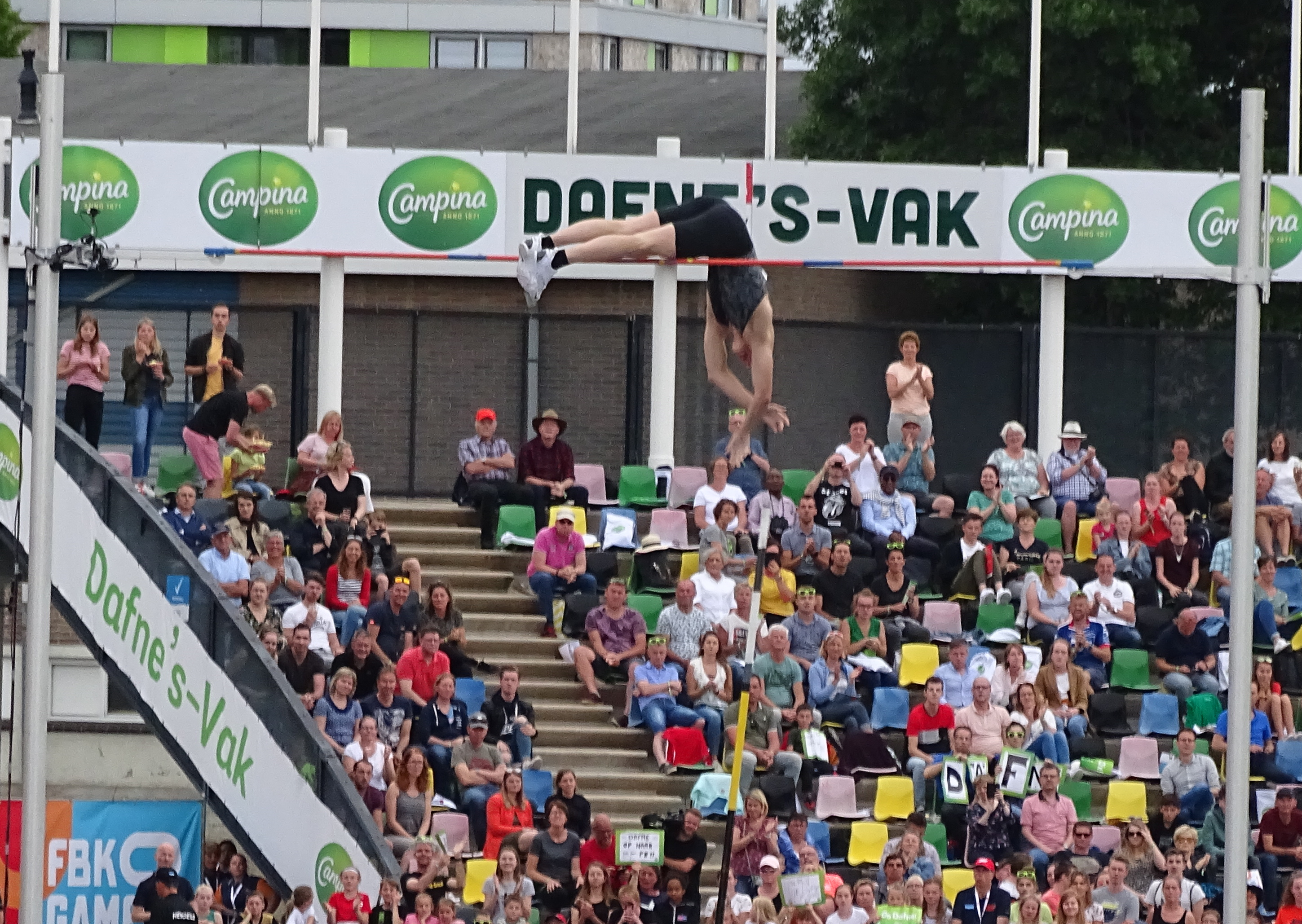 Sam Kendricks jumps over 5,91 m at the 2019 FBK Games and takes over the meeting record of 5,90, set by Sergey Bubka in 1992.